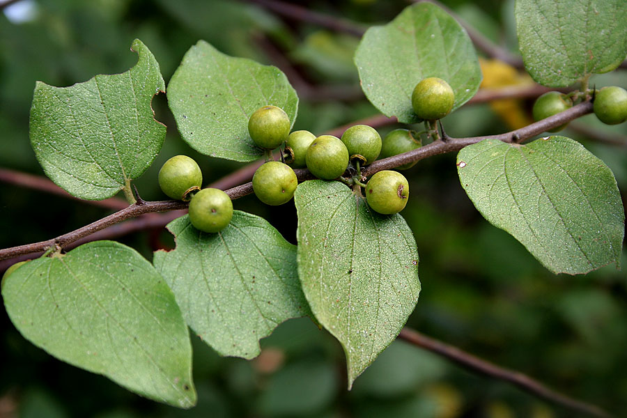 Ziziphus oenoplia (L.) Mill. - Jackle jujube, Hurasurah, Small-Fruited Jujube, Wild Jujube • Hindi: Makkay, Makai • Marathi: Burgi • Tamil: ஸுரைமுல்லூ Suraimullu, Surai ilantai • Malayalam: തുതാലീ Tutali, Cheriyalanta, തുതാരീ Tutari • Telugu: పరాకీ Paraki, పరాగీ Paragi, Paringi • Kannada: Pargi, Barige, karisurimullu, Harasurali • Bengali: Siakul • Sanskrit: Karkandhauh - at Deer Park in Shamirpet, Rangareddy district, Andhra Pradesh, India.